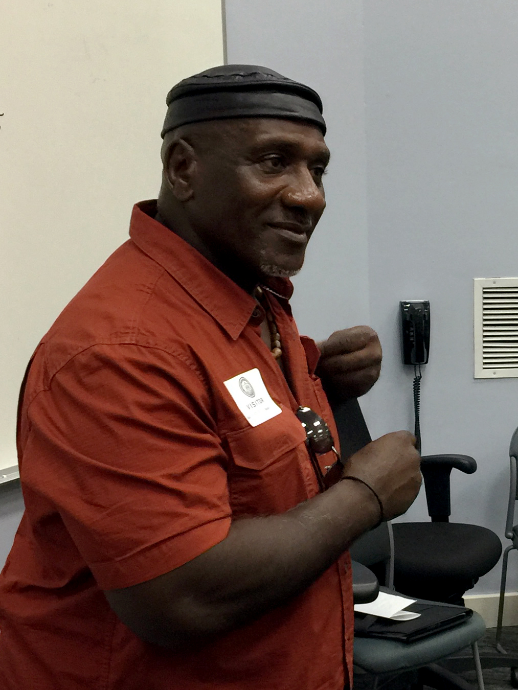 Gary Tyler, a former American political prisoner in Louisiana, giving a lecture at the University of California, Hastings College of the Law. Tyler was imprisoned from 1975 (jailed since 1974) until April 29, 2016 having been convicted aged 17 of the 1974 shooting death of a 13-year-old white boy. Originally sentenced to death, Tyler was the youngest prisoner on death row. The United States Court of Appeals for the Fifth Circuit ruled the trial was "fundamentally unfair" and Amnesty International has categorized him with all other political prisoner around the world.